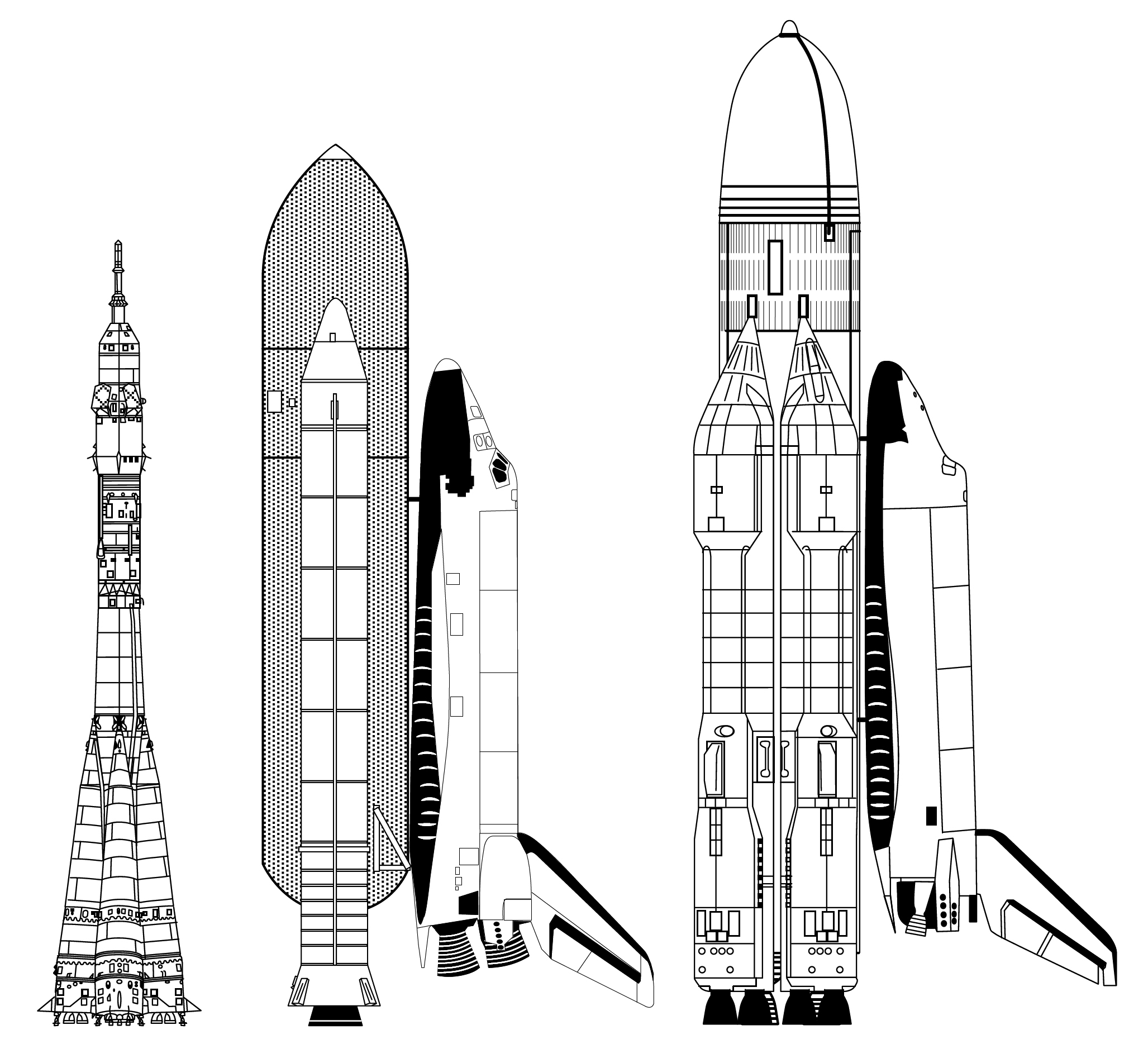 Figure 4-5. Soyuz rocket (left), Space Shuttle (center), and Energia-Buran (right) (drawn to scale). Rockets currently used to launch manned spacecraft into orbit.